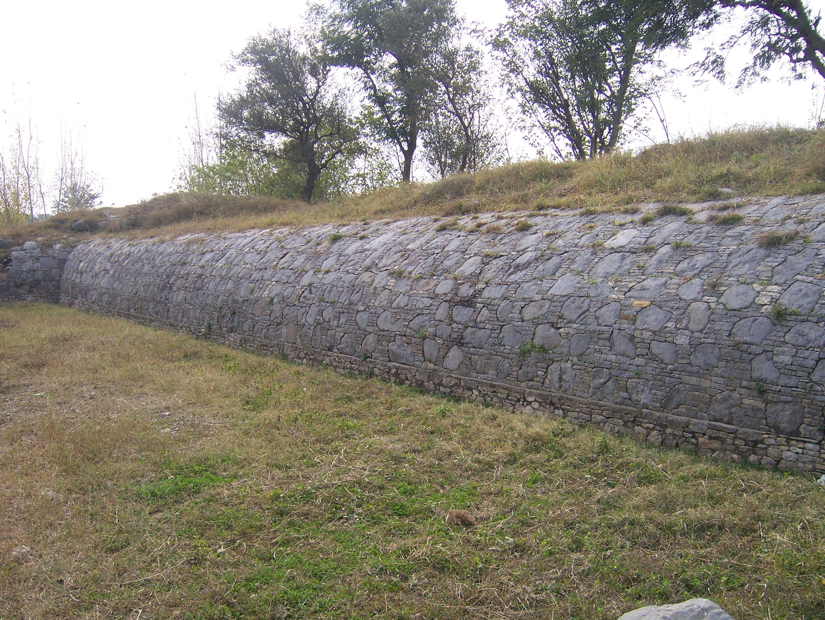 The stone wall of the ancient city of Sirsukh — the Kushan Empire archaeological site. Located near ancient Taxila — in Punjab Province, Pakistan.